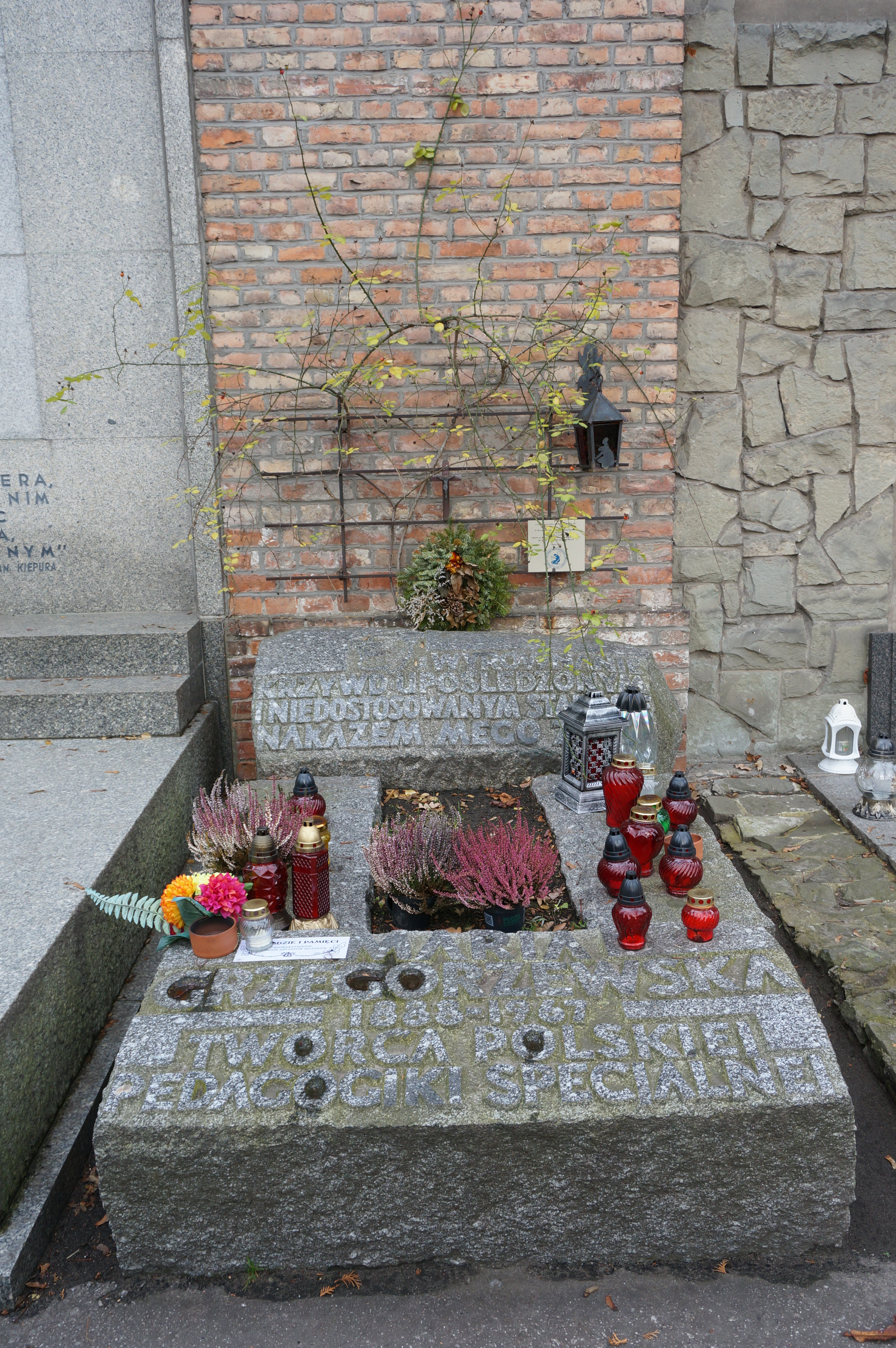 The grave of Maria Grzegorzewska at the Powązki Cemetery (Avenue of Deserved, grave 82)